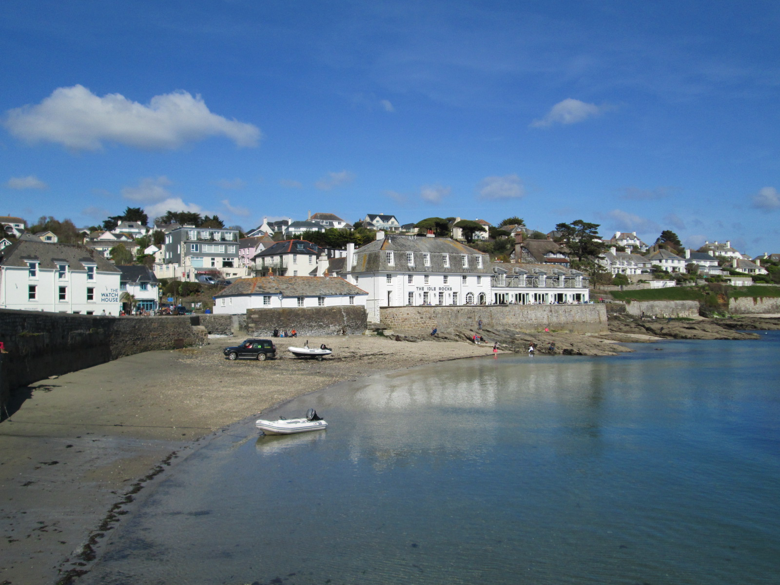 Harbour and seafront of St Mawes, Cornwall.